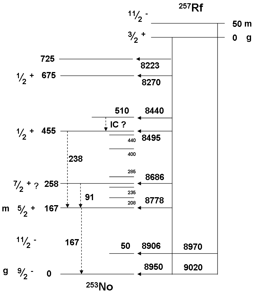 decay scheme for 257Rf